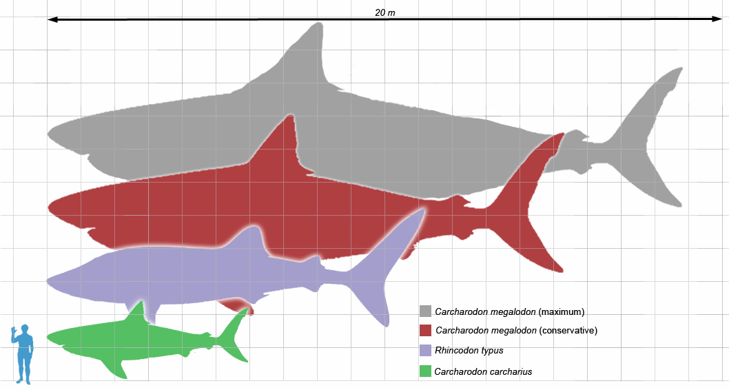 Size comparison of Carcharodon carcharias (Great White Shark, 6 m) and current maximum estimate of the largest adult size of Carcharodon megalodon (18 m), with a human Homo sapiens.